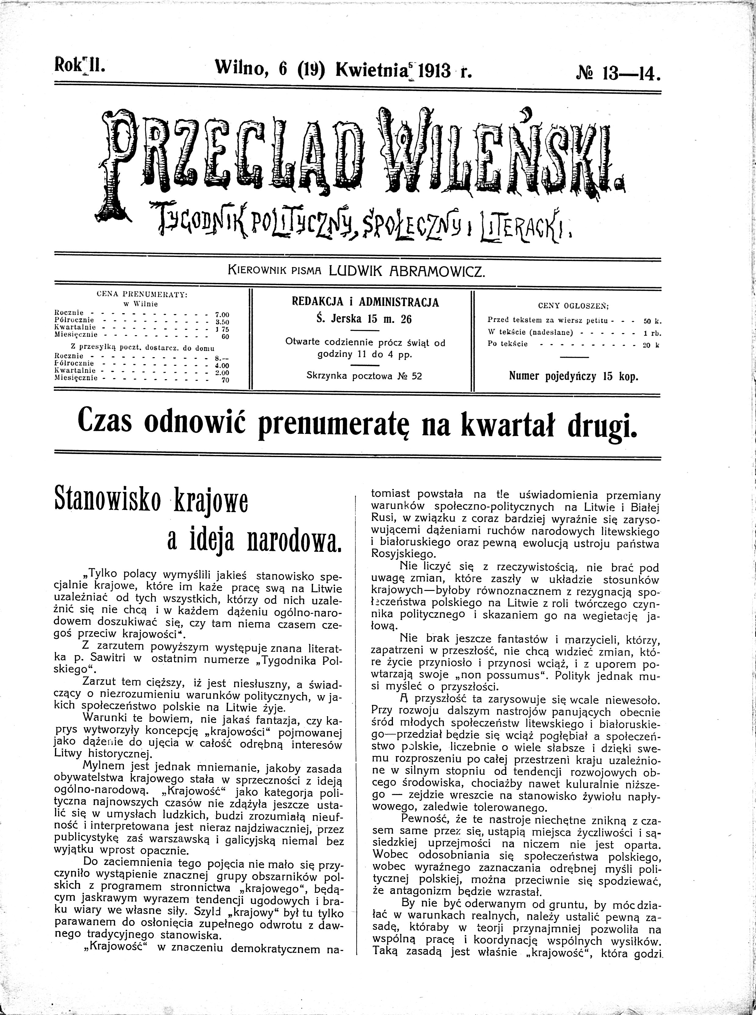 pages 1 of a newspaper "Przegląd Wileński" (#13-14, 1913 AD), Russian empire.